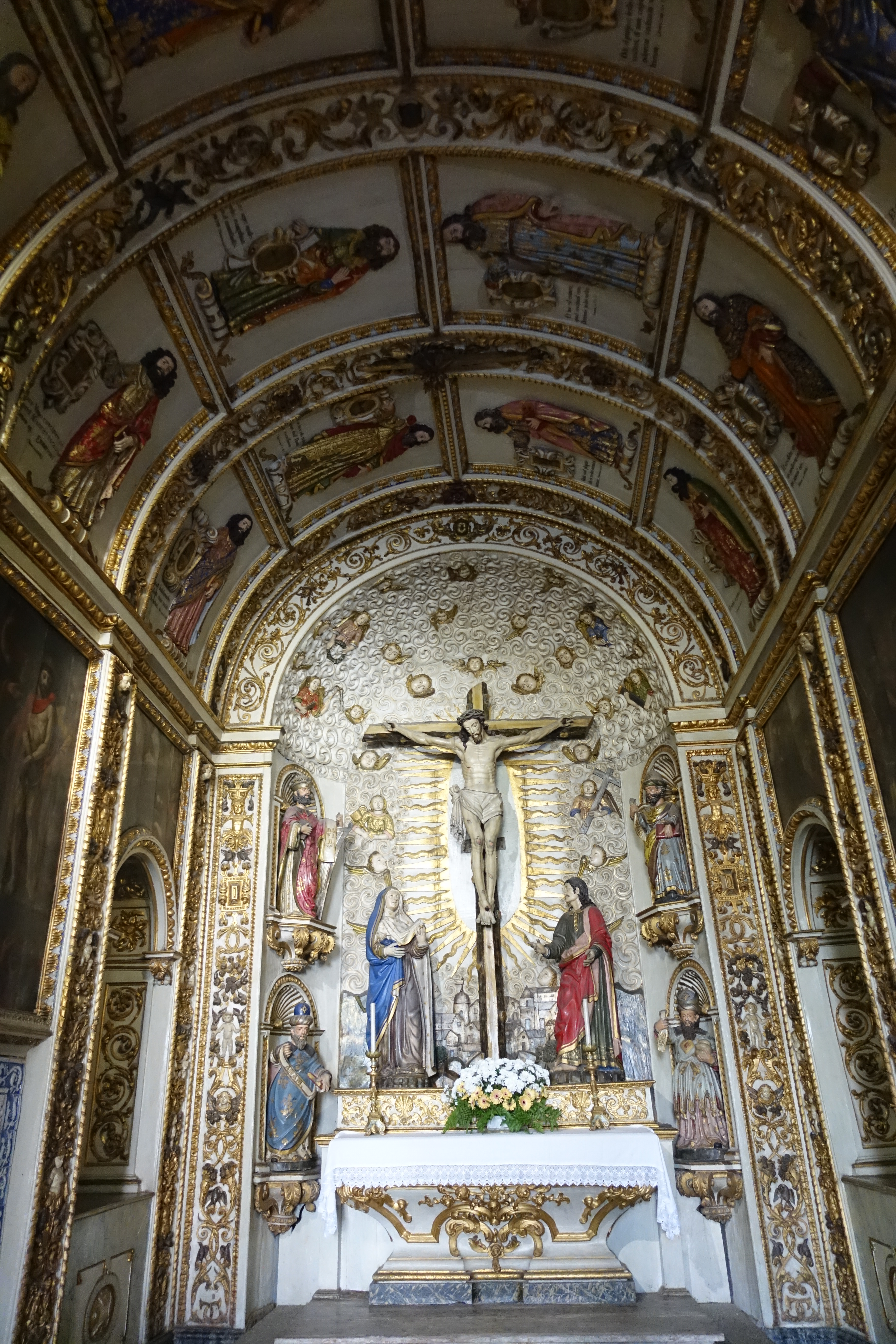 Interior of Igreja da Misericórdia de Esposende Portugal.